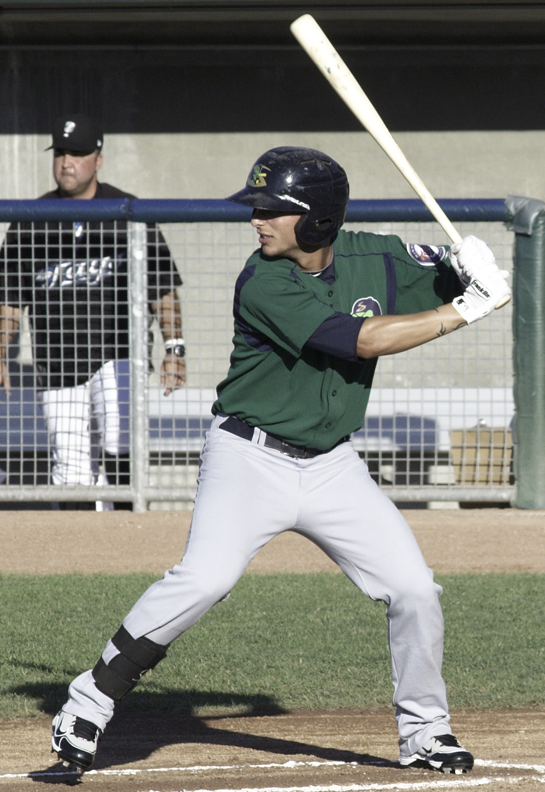 Daniel Ortiz bats for the Beloit Snappers during a 2011 game against the Lansing Lugnuts at Cooley Law School Stadium in Lansing, Michigan.